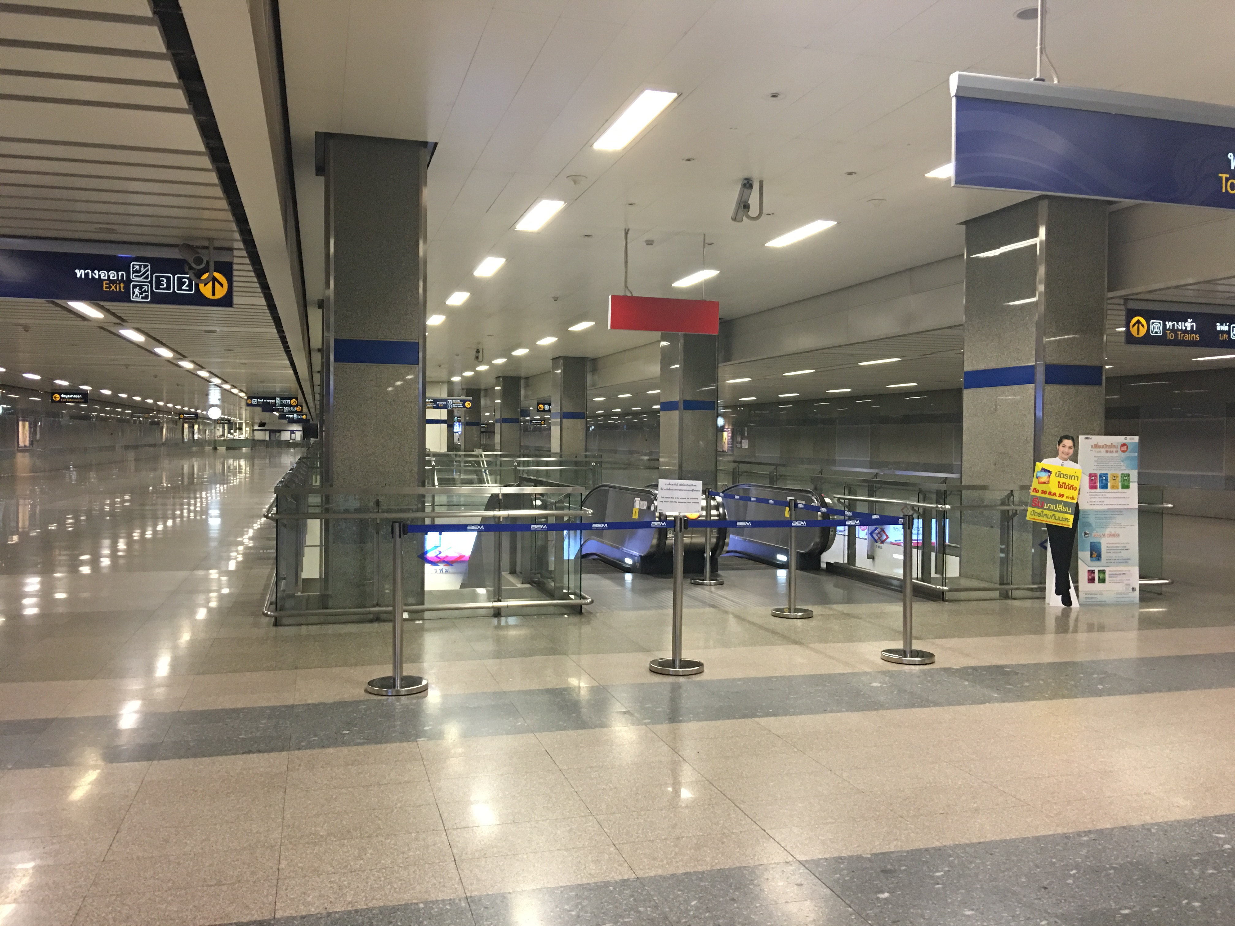 The concourse level of Chatuchak Park Station